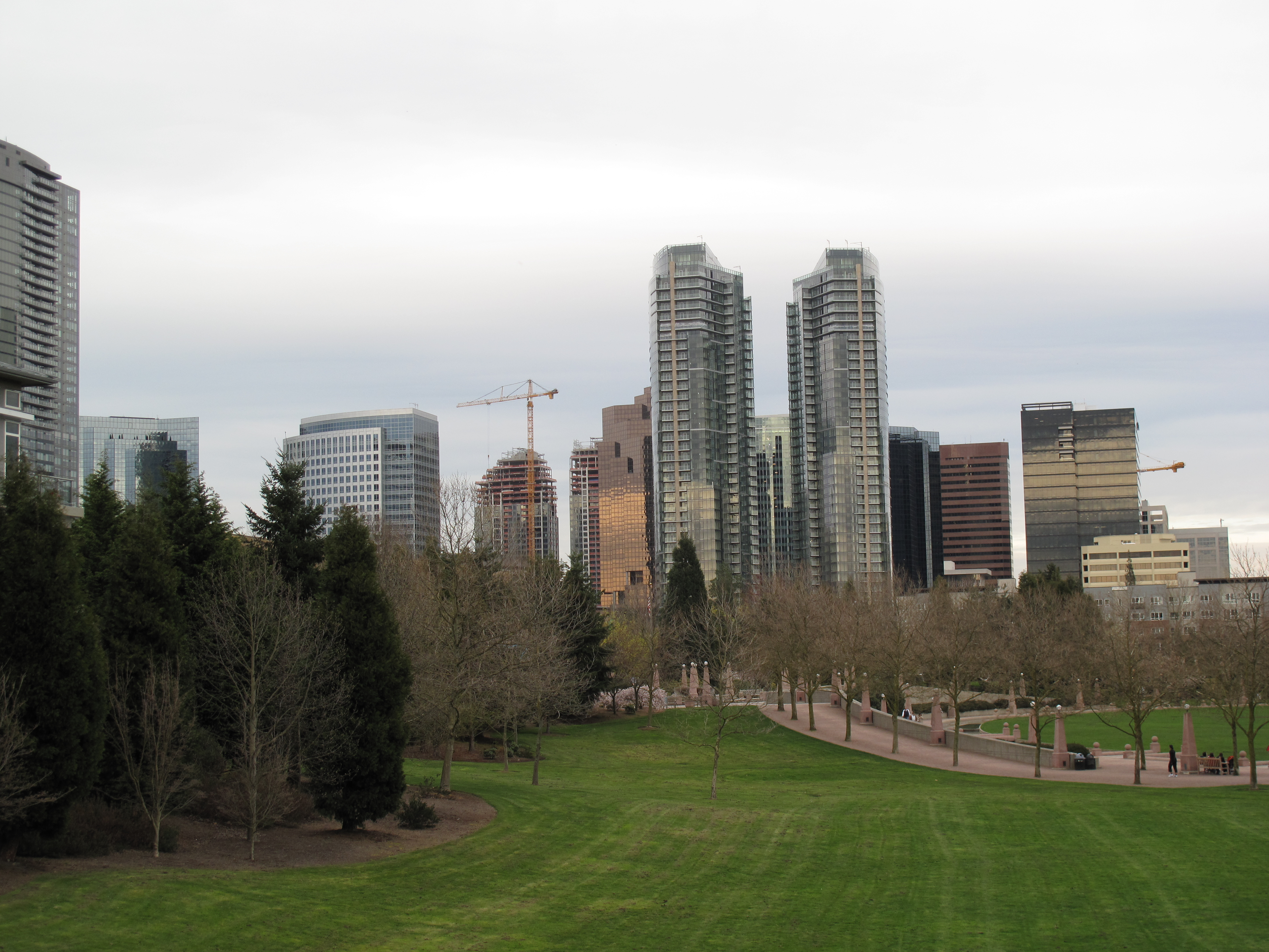 A picture of the skyline of Bellevue, Washington, USA; as seen from Downtown Park.